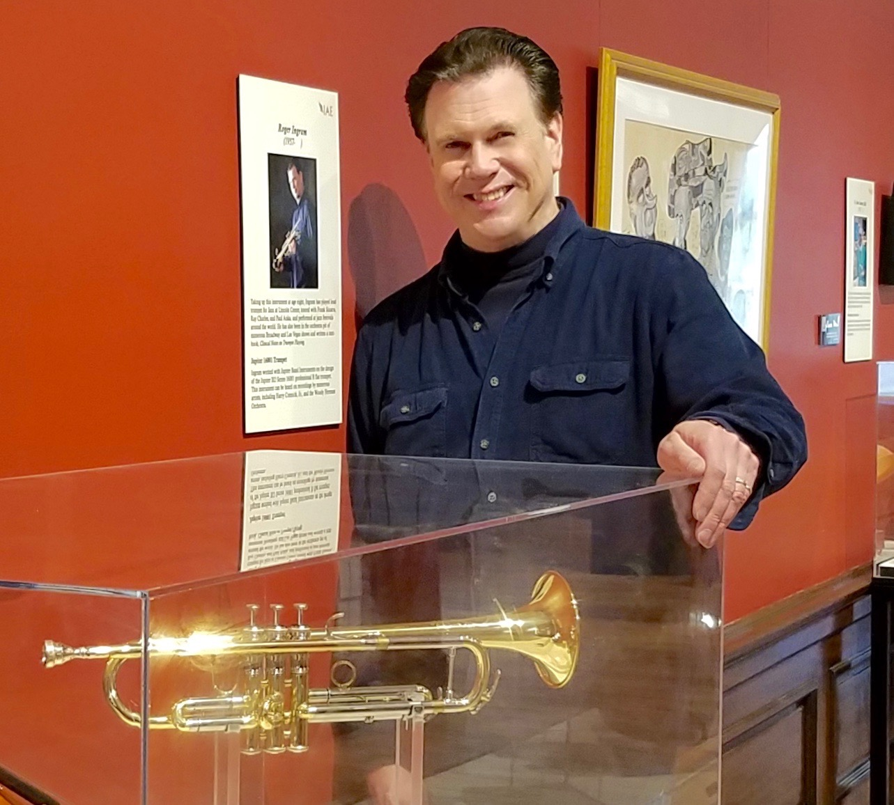 This is Roger Ingram standing next to the display of his Jupiter XO Brass 1600i Bb trumpet and Ingram V-cup mouthpiece at the Kentucky Museum's "Instruments of American Excellence" exhibit. Roger_Ingram